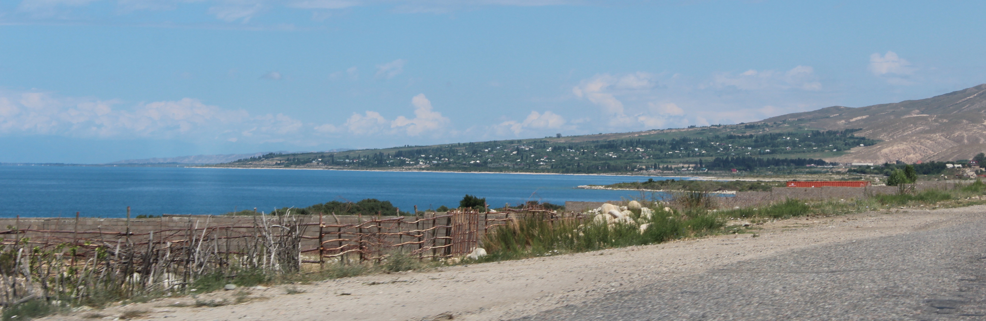 Ak Terek village as seen from Kichi Jargylchak Кыргызча: Ак Терек айылы, Кичи Жаргылчак айылынан көрүнүшү